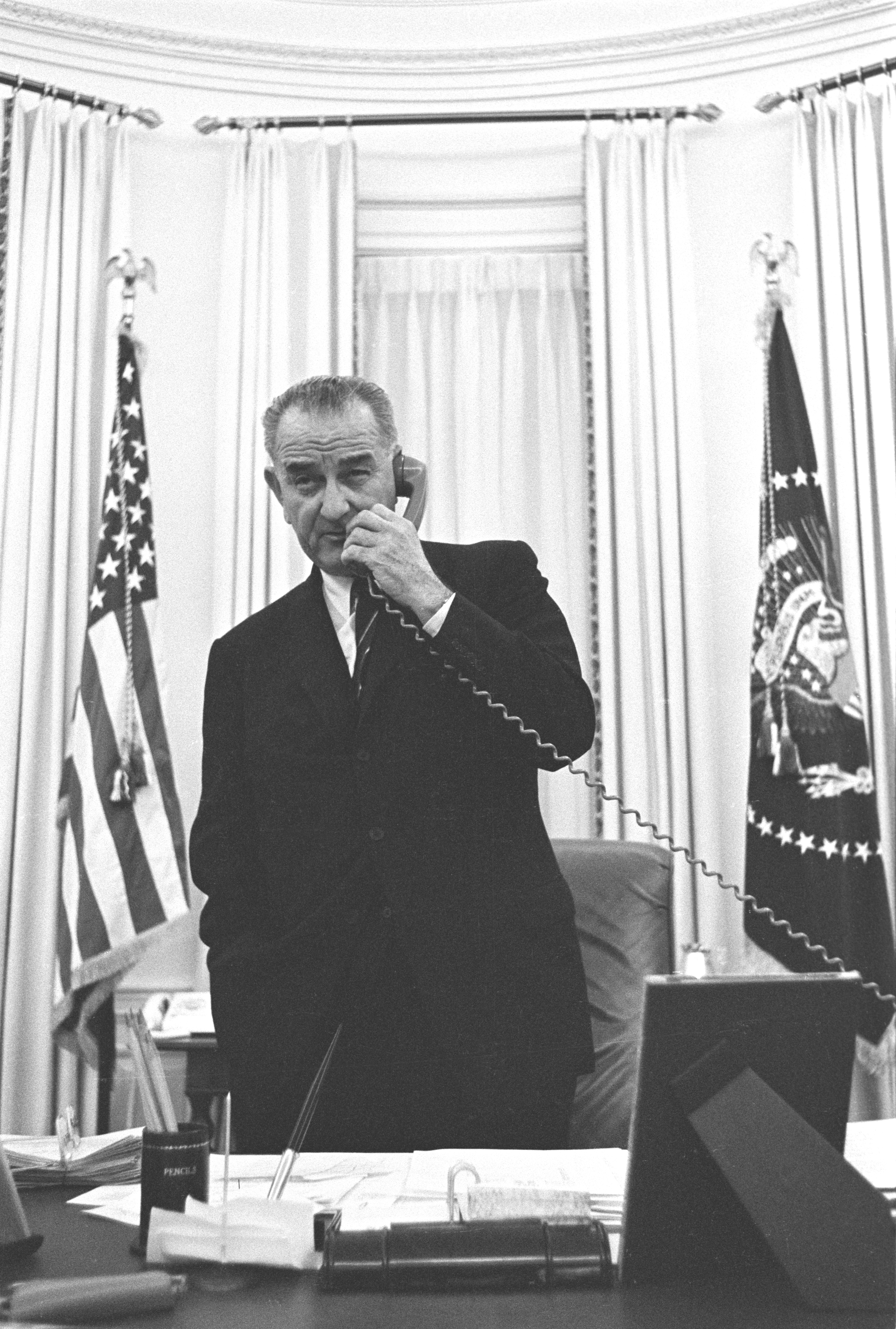 President Lyndon B. Johnson speaks on the telephone in the Oval Office